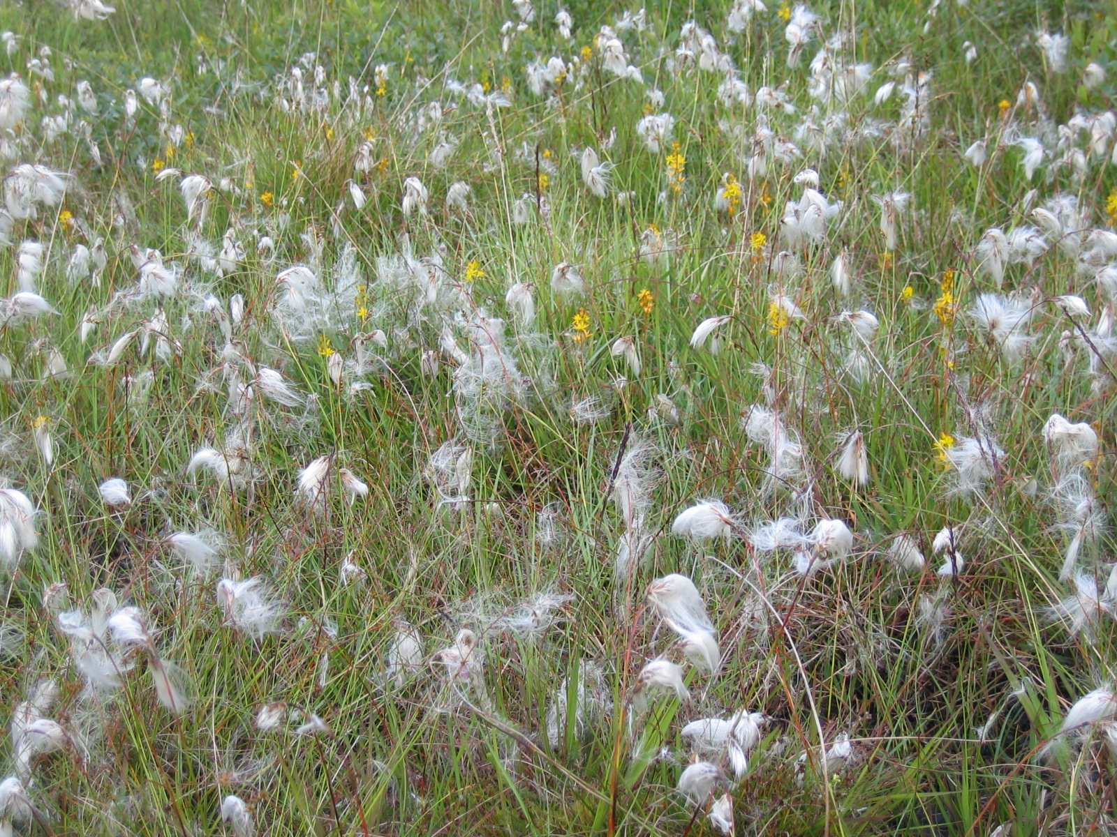 Common cottongrass (Eriophorum angustifolium) on the lower slopes of Ben Nevis, Scotland.